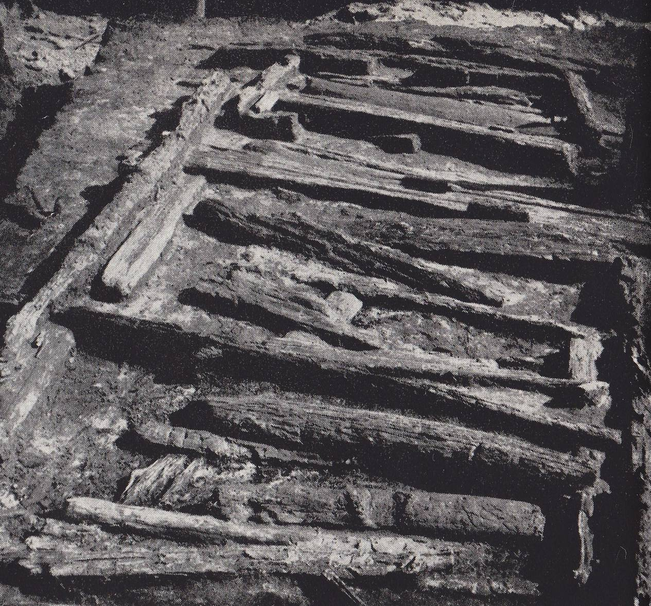 Archaeological works in Grodzisko Piotrówka in Radom